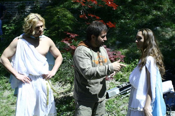 Stiliyan Ivanov Orpheus